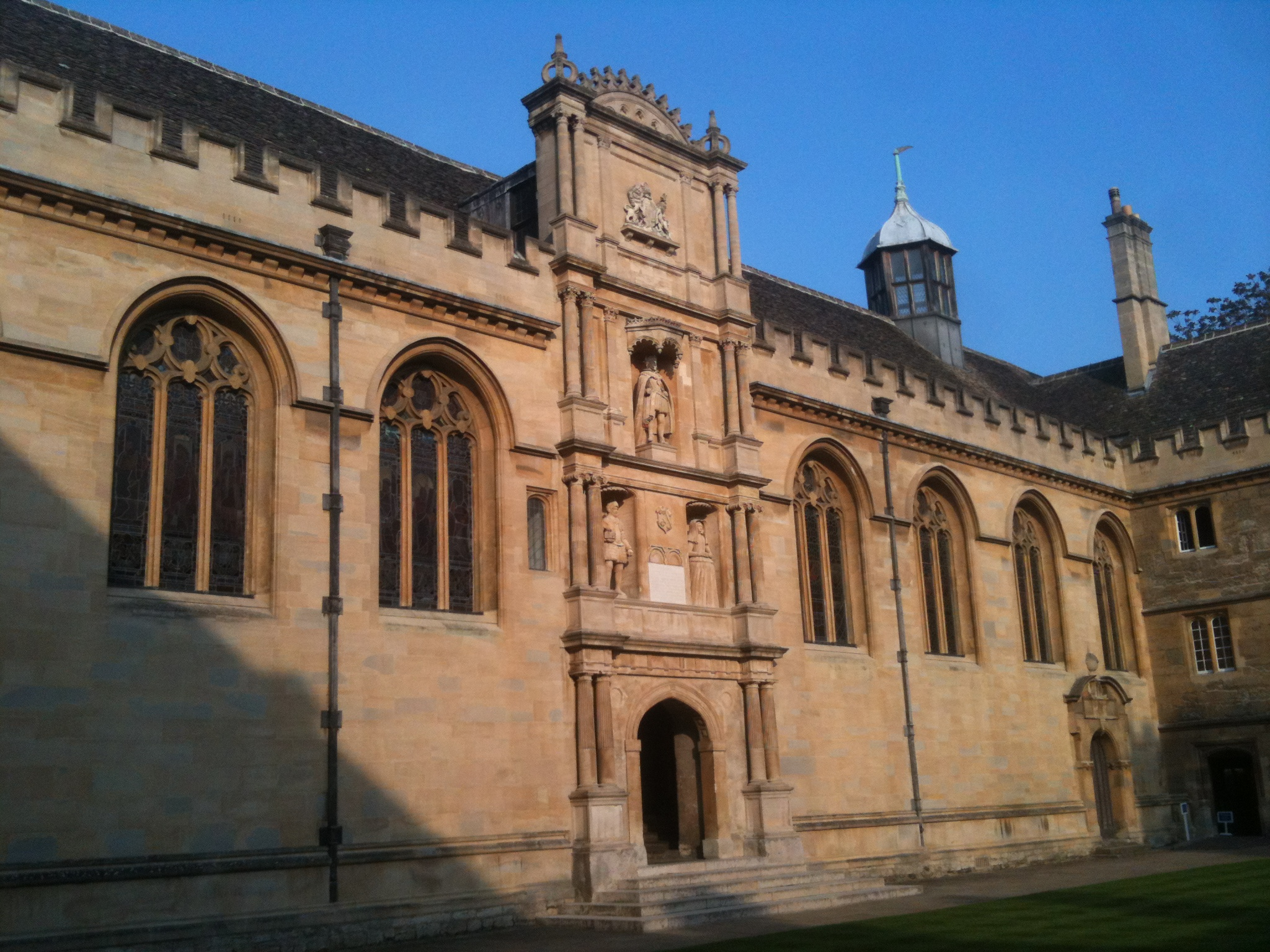 Wadham Frontispiece